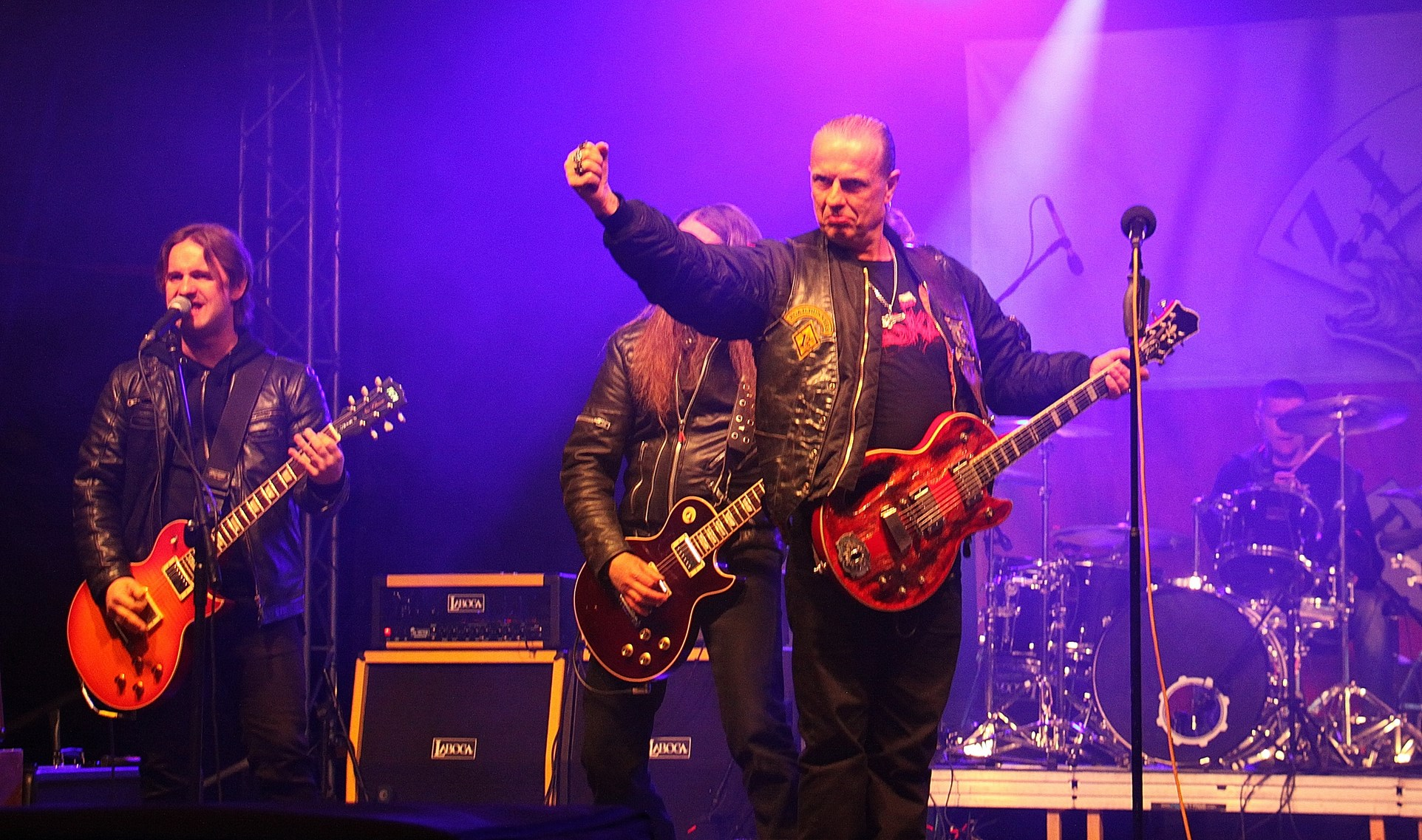 Złe Psy on stage (Jacek Kasprzyk & Andrzej Nowak)